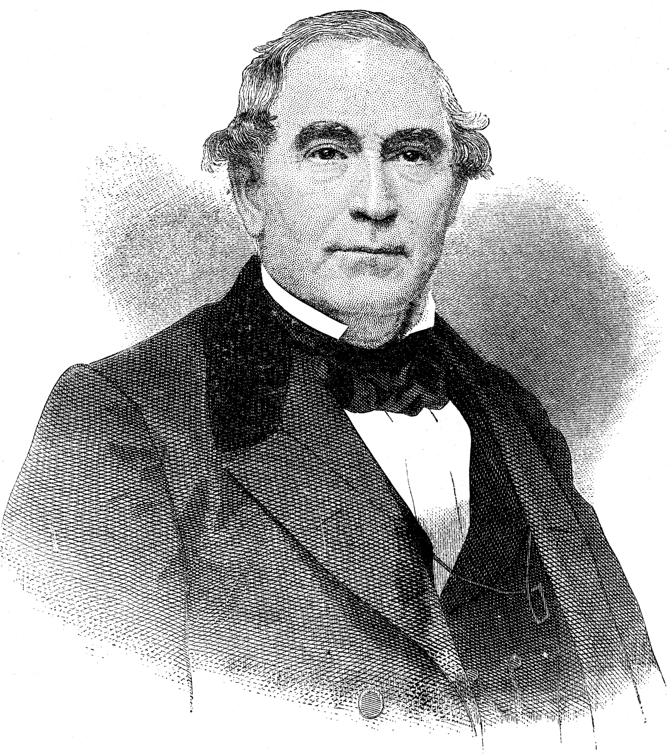 Engraving from The Providence Plantations for 250 Years, Welcome Arnold Greene (1886).